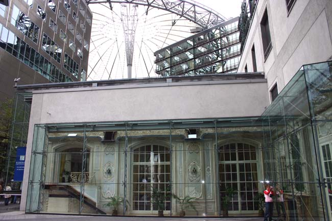 Photograph taken by Stan Irwell.